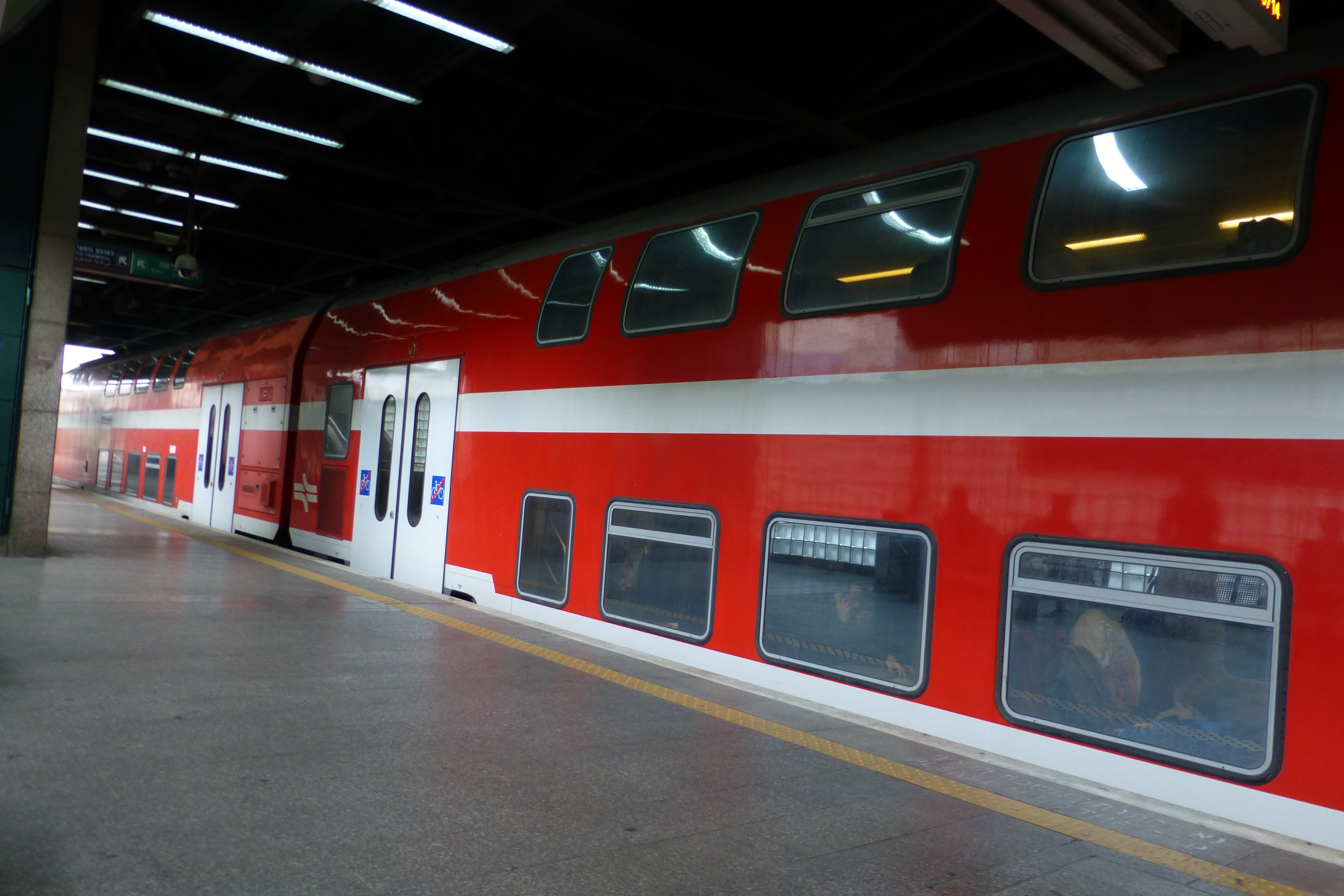 Tel Aviv HaShalom train station